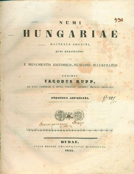 Numi Hungariae hactenus cogniti, quos delineatos, ac e monumentis historico-numariis illustratos exhibet ... Periodus Arpadiana. 168 l.) Budae, 1841.